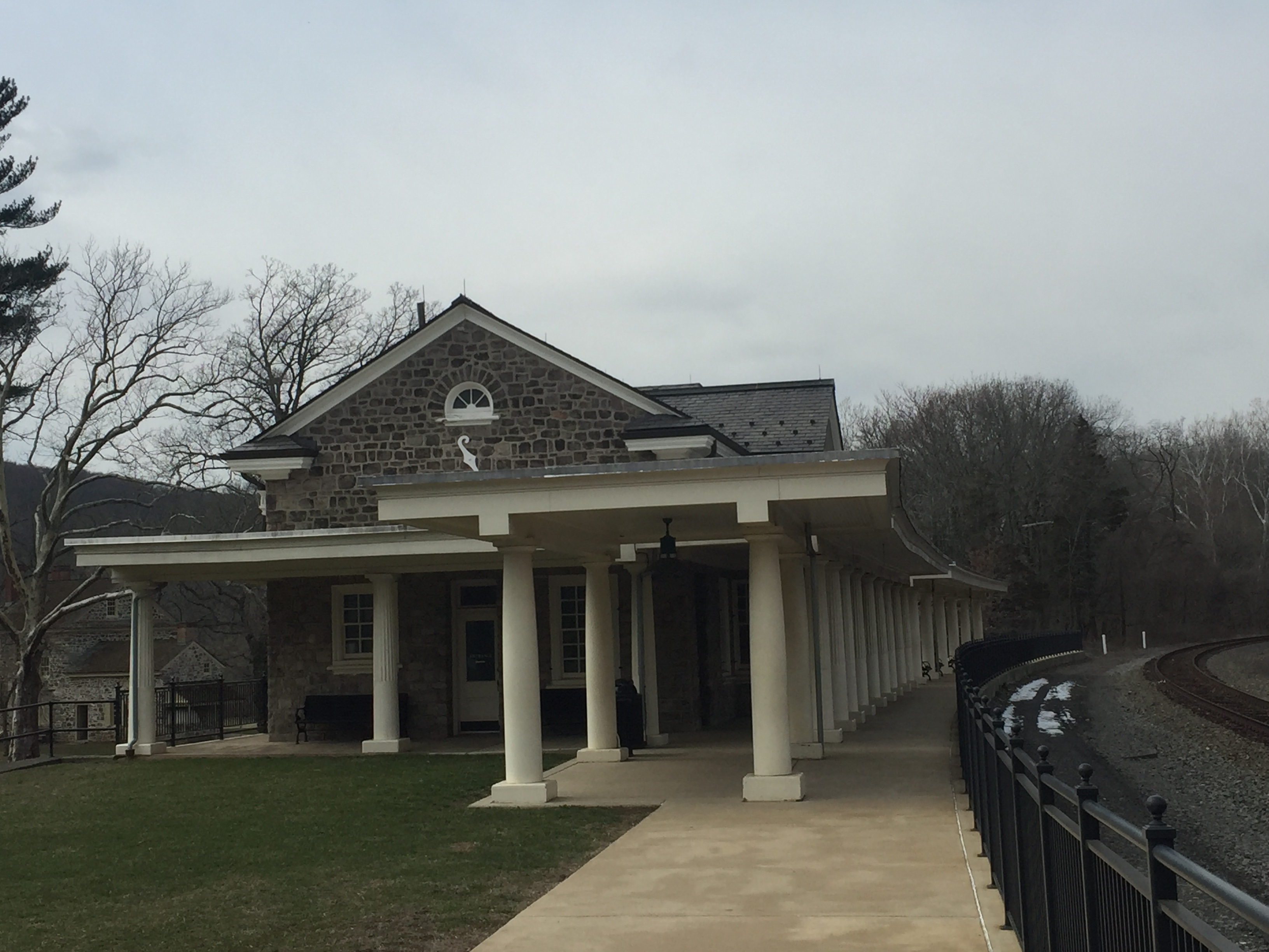 Valley Forge station - Valley Forge station building.